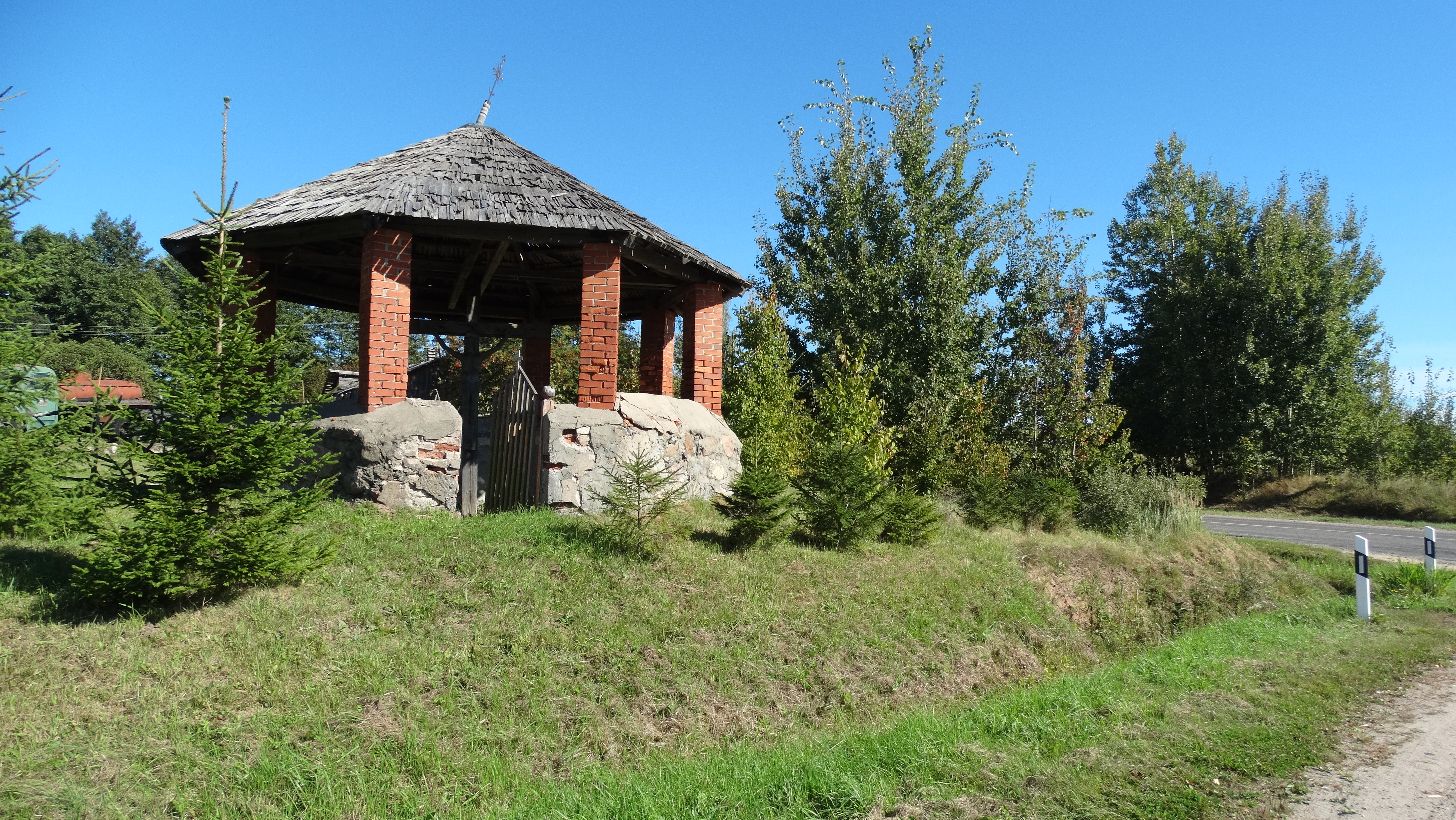 Chapel in Dūkšteliai, Ignalina District, Lithuania